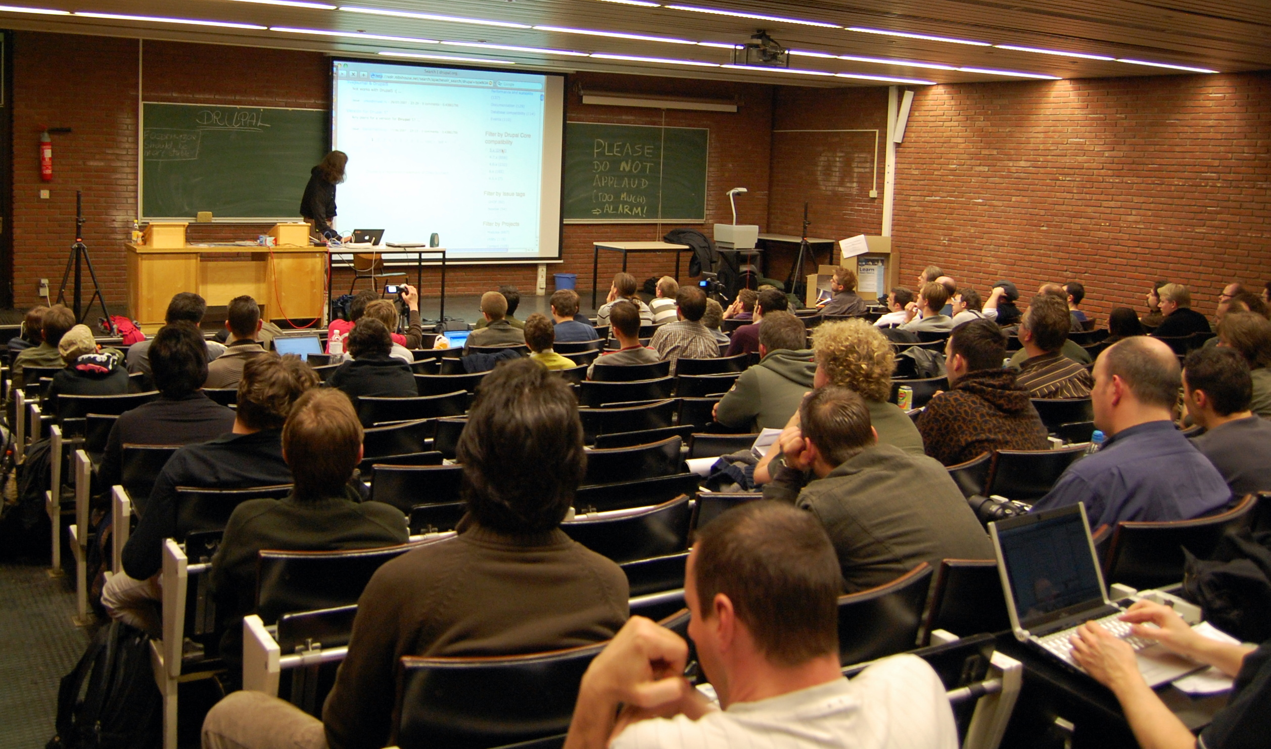 Picture from FOSDEM 2008.